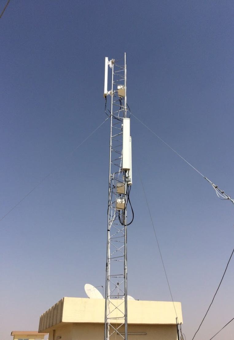 An LTE Advanced Tower in Iraq with a CableFree EnodeB Base Station, three Remote Radio Heads and Sector Antennas, utilised for Broadband Wireless Internet Service Provision